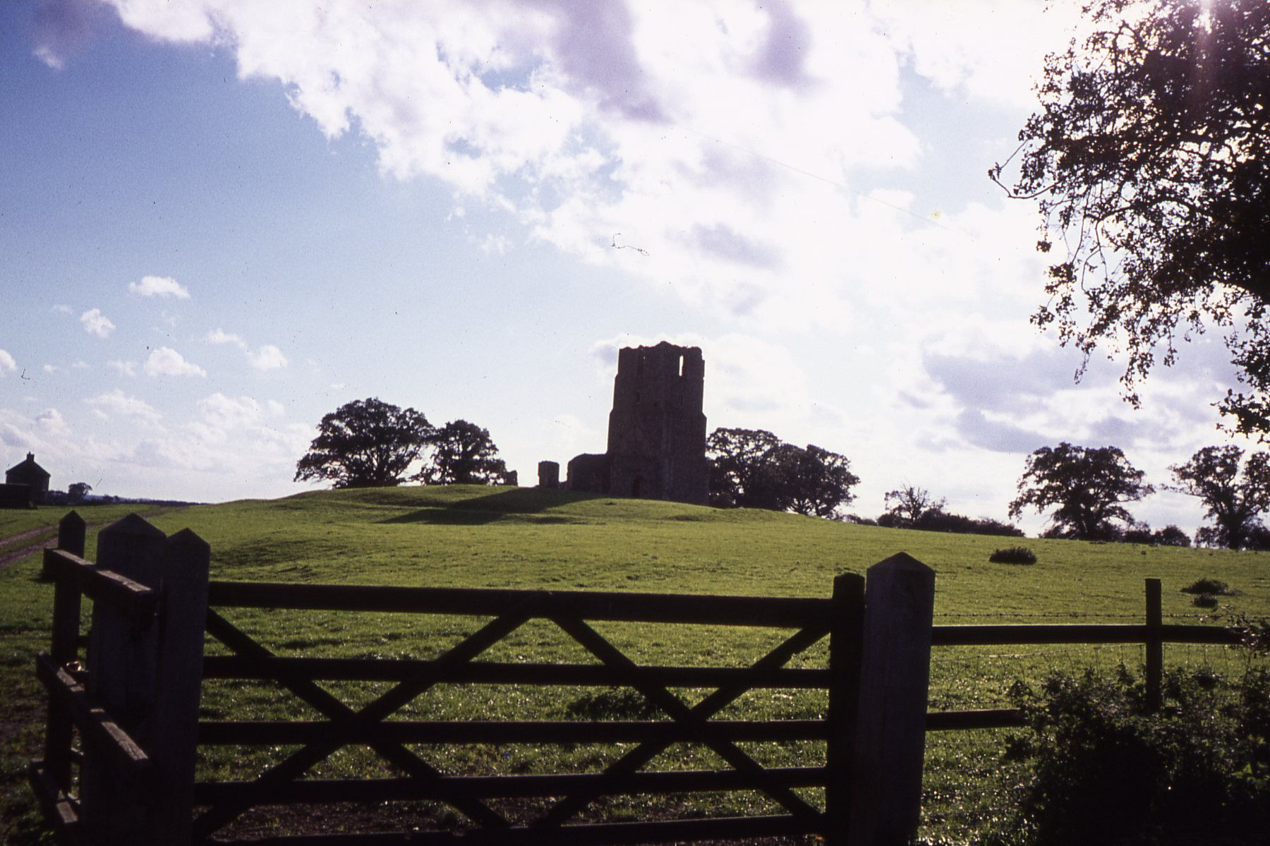 Ruined Egmere Church, W of Little Walsingham